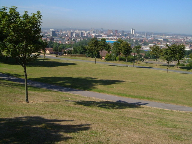 Liverpool from Everton Park. The park commands a magnificent view; this, to the southwest, includes the Pierhead.